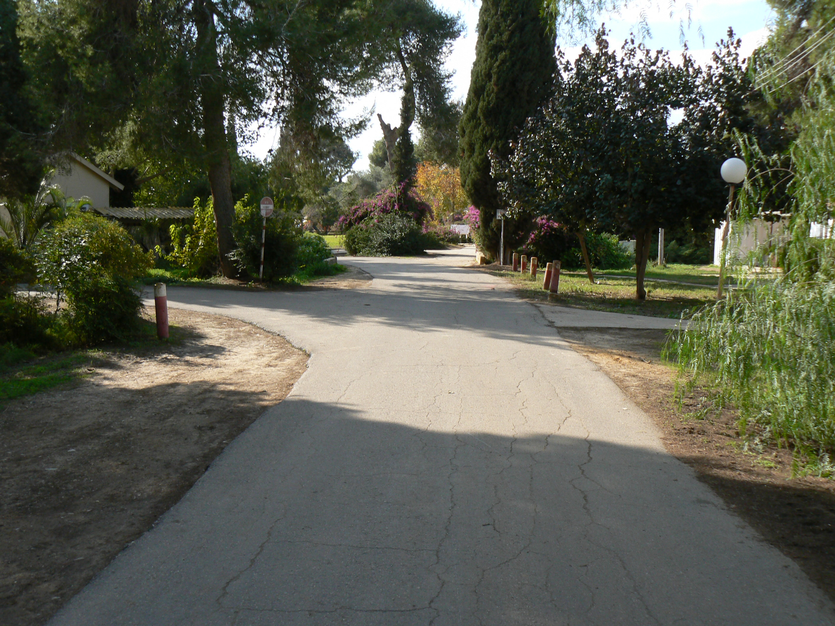 Walkway in the residential area of Kibbutz Mefalsim